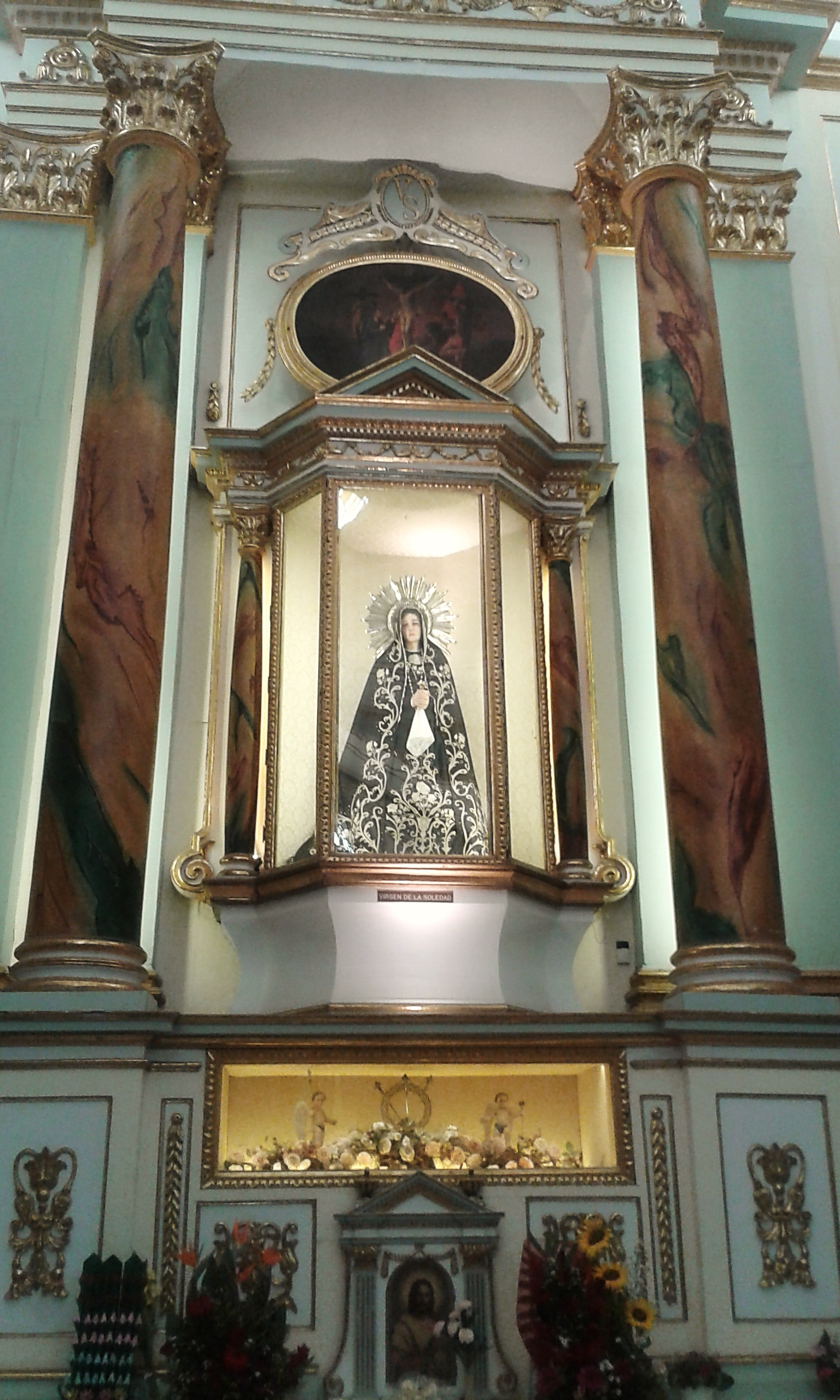 It is an invocation of the Virgin Mary